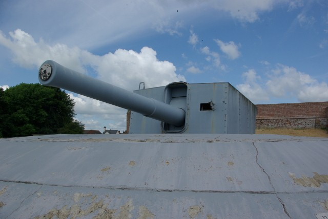 9.2 inch coastal defence gun at Imperial War Museum, Duxford. This gun was originally located at Spur Battery, Gibraltar.